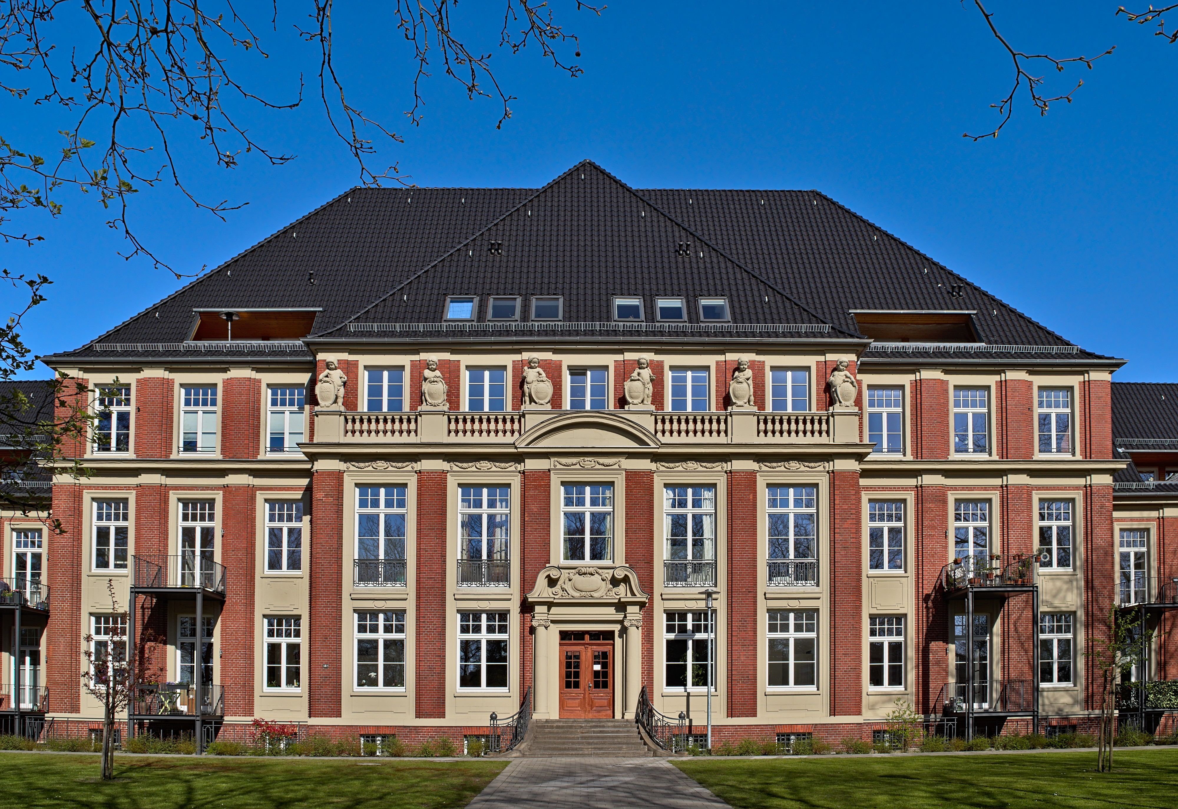 Former main building of the General Hospital (Allgemeines Krankenhaus) in Hamburg-Barmbek. The hospital moved into a new building and 2005, and the old buildings were converted into a residential quarter between 2006 and 2013.